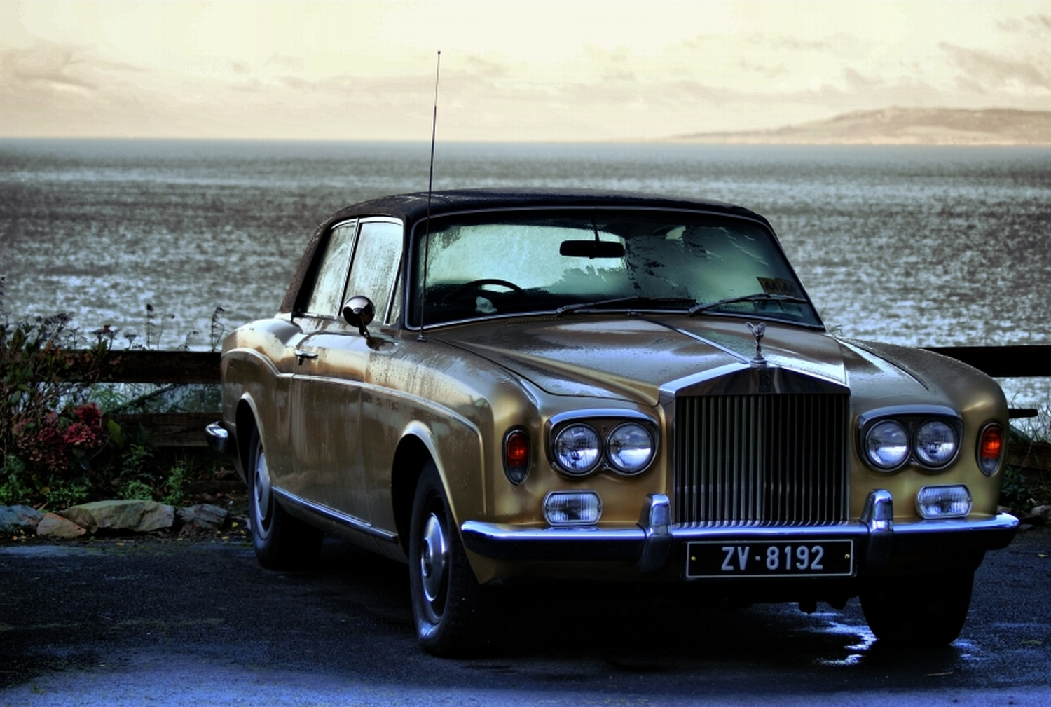 Rolls Royce Corniche I coupé. Year of production: 1981